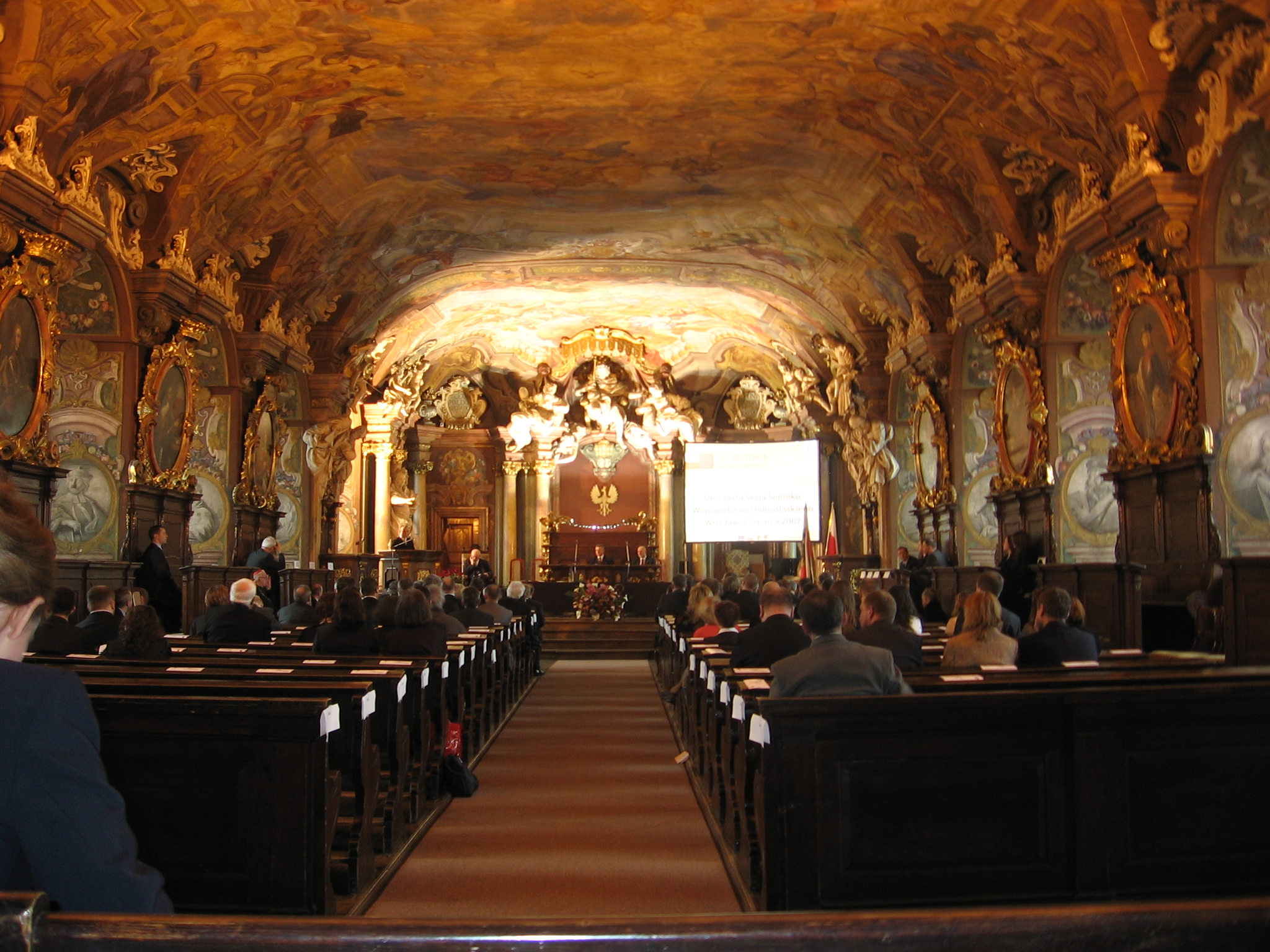 Leopoldineum - Auditorium Academicum (University of Wrocław), March 23rd 2007